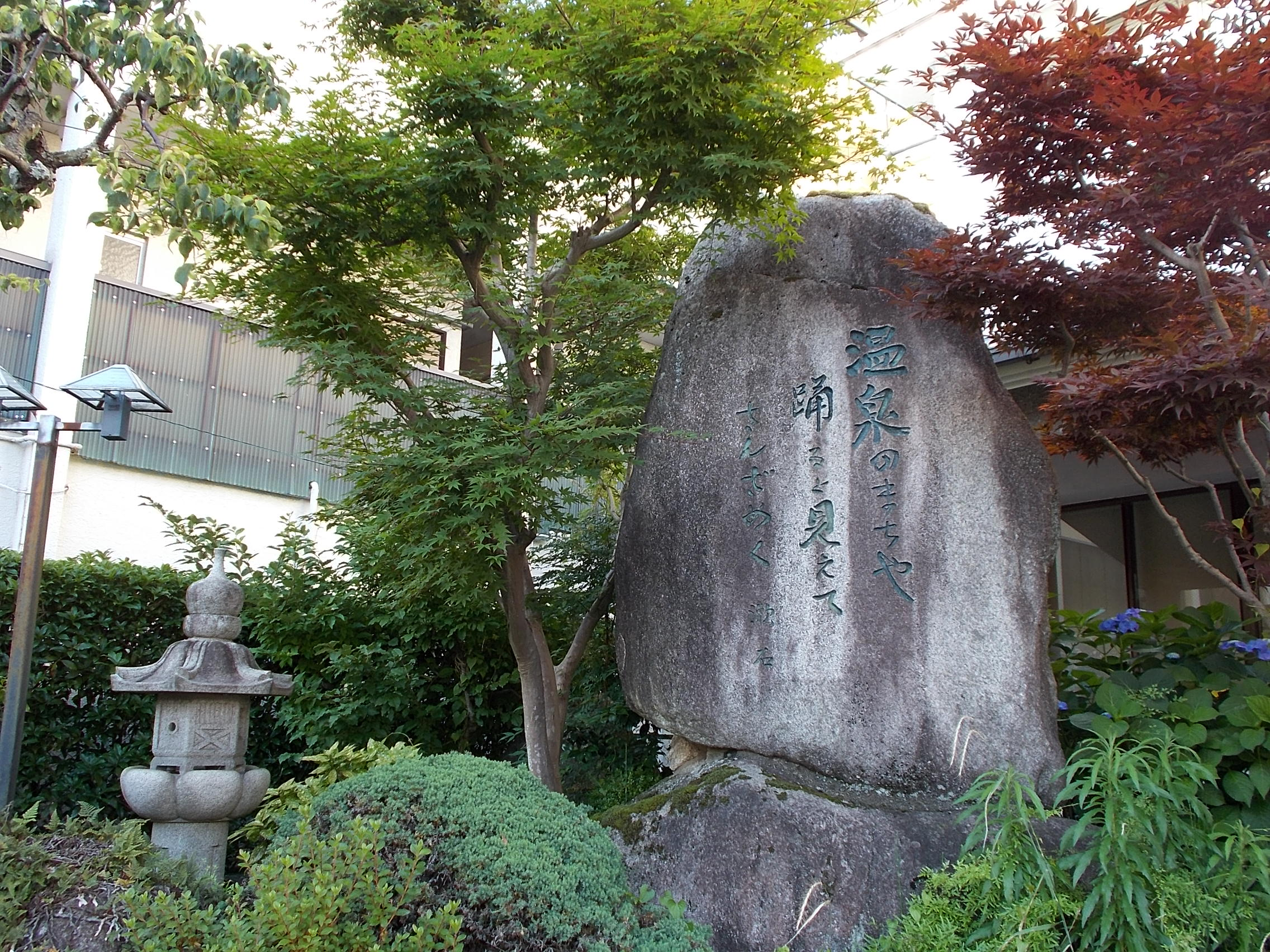 A monument of Natsume Soseki in front of Gozen-yu public bath, Chikushino, Fukuoka, Japan